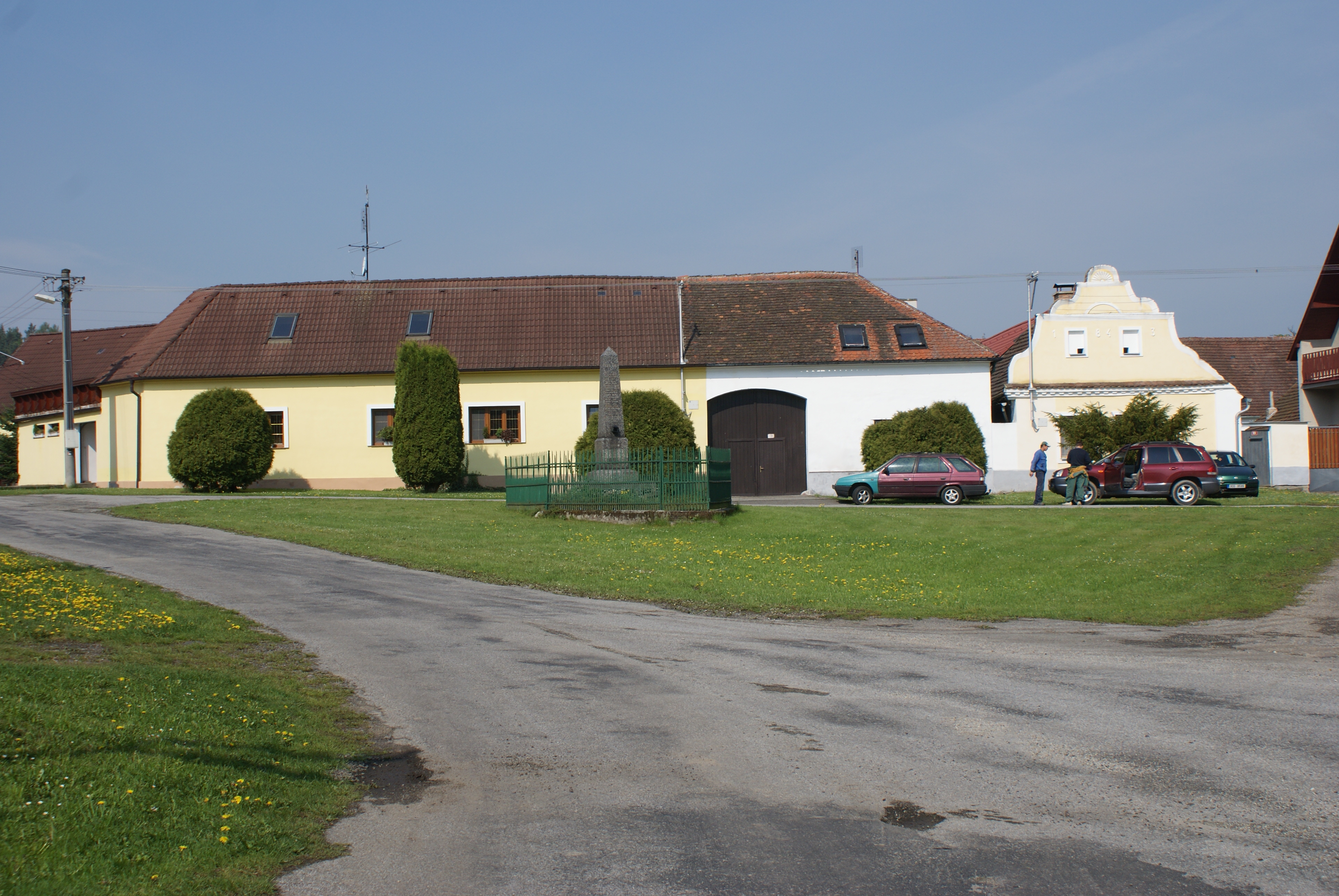 Heřmaň village in Písek district, Czech Republic. Houses on the village common.